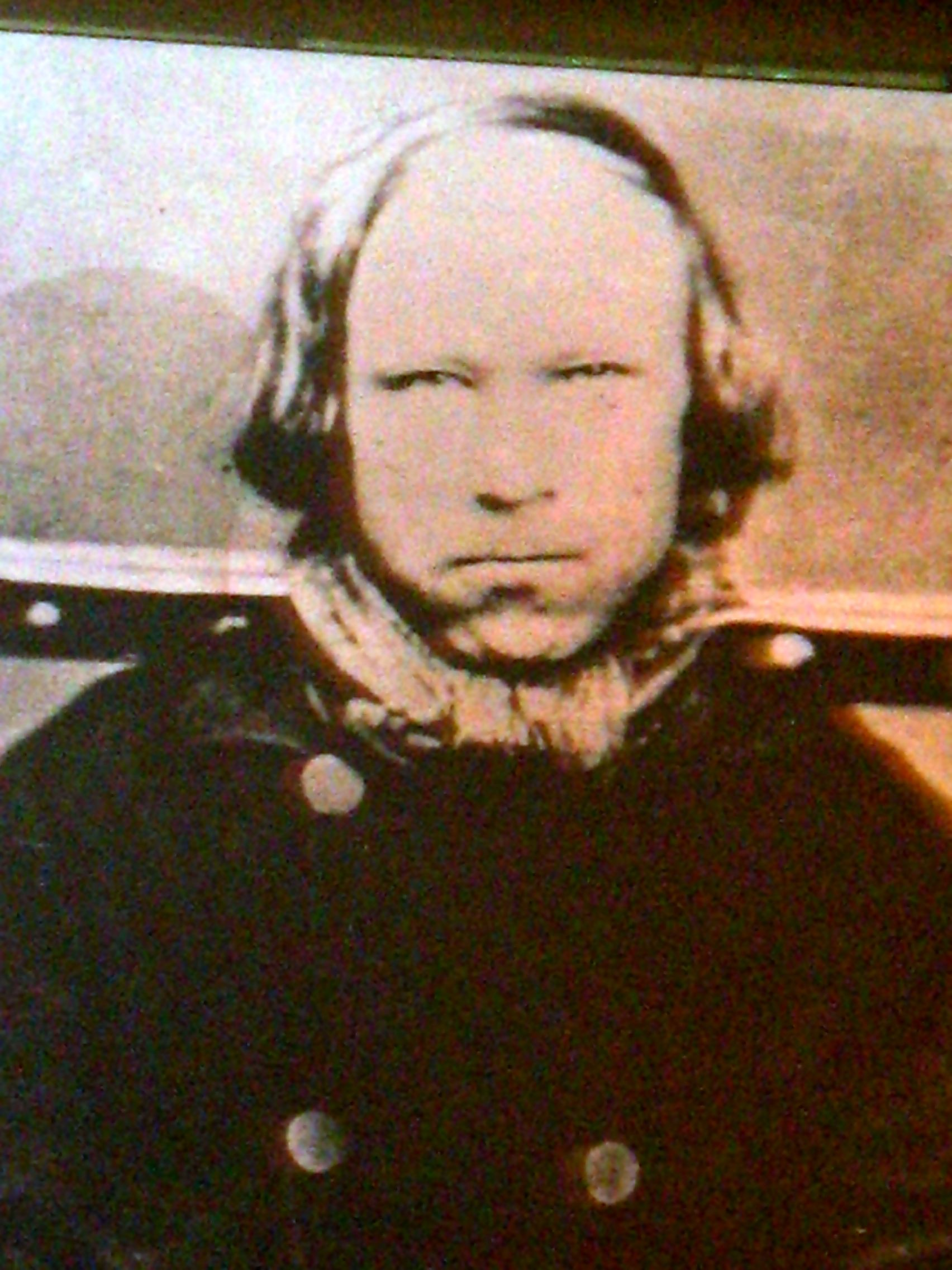 Early Norwegian photo, possibly of Ole Høiland (1797-1848)